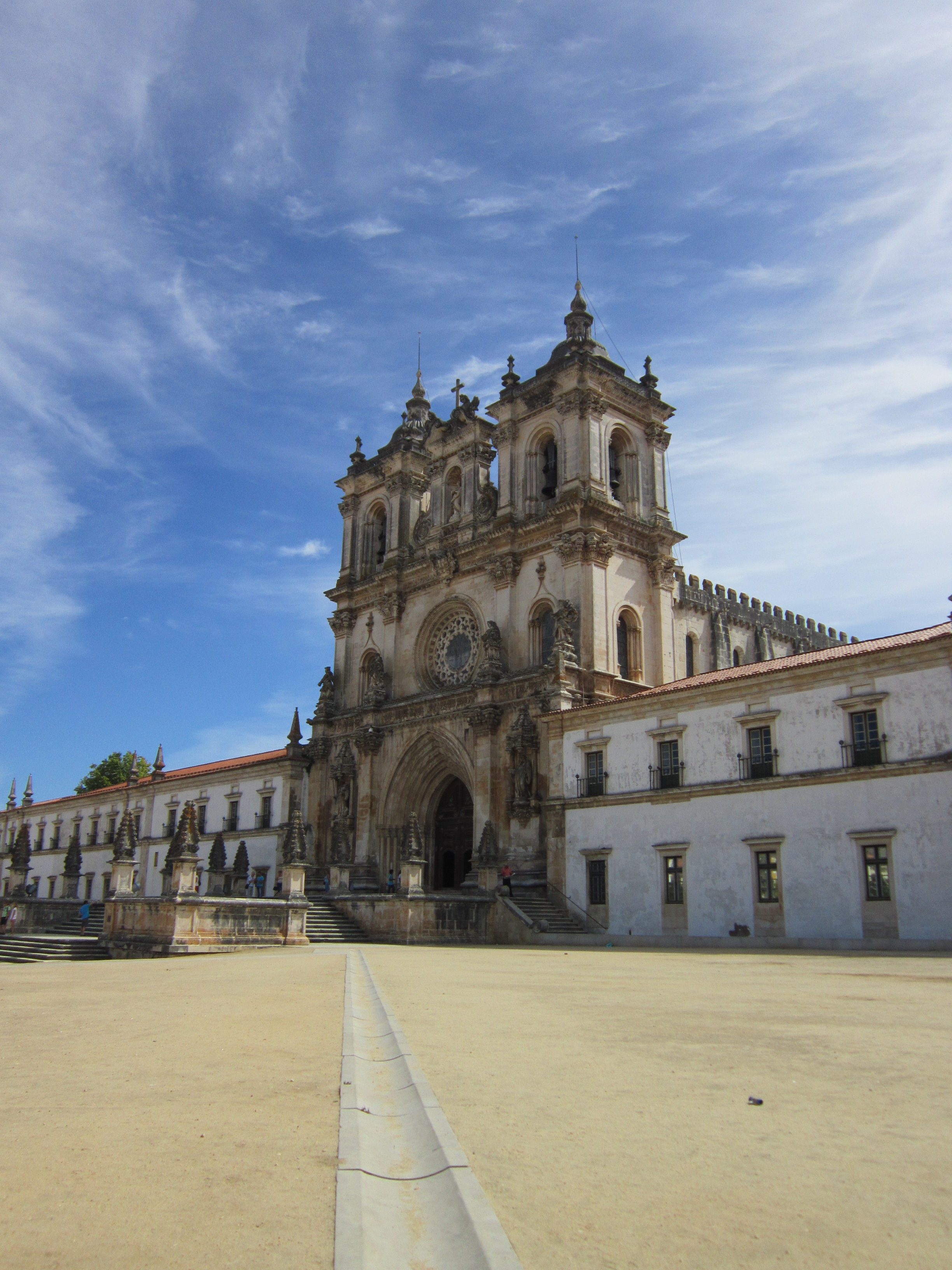 Picture of the "Mosteiro d'Albobaça"